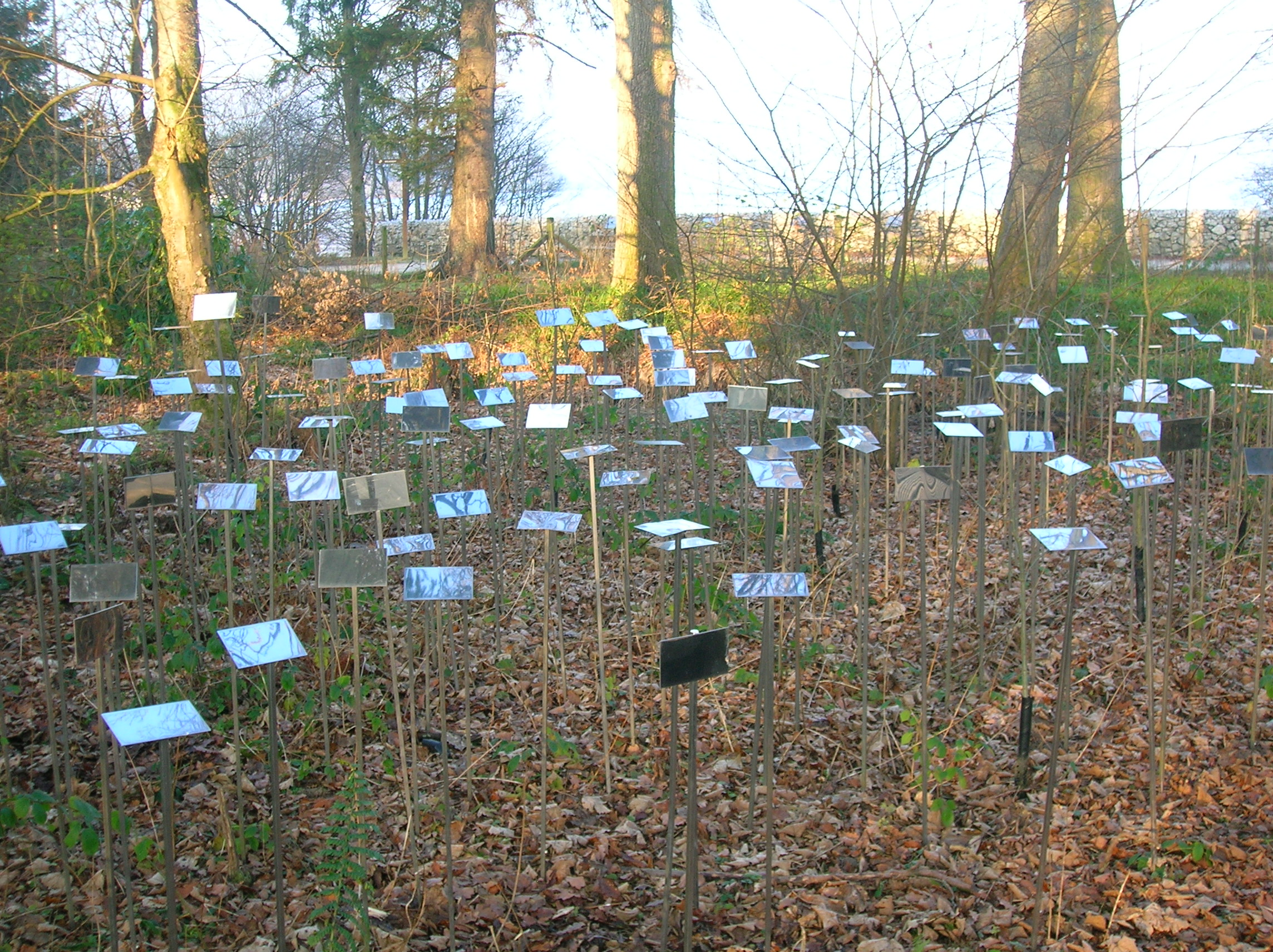 A woodland based Environmental Art piece at Balloch, Scotland.